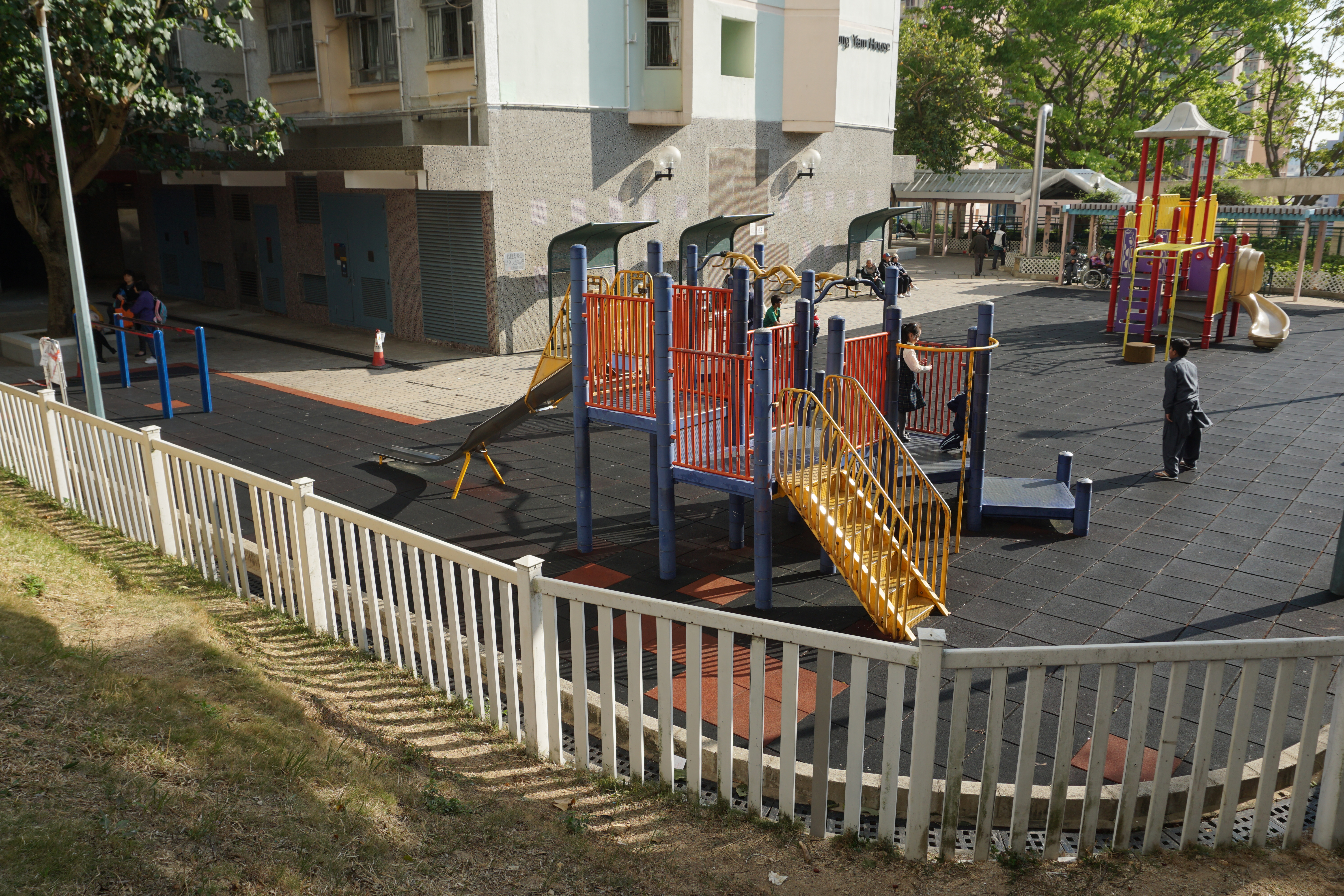 On Yam Estate in Shek Yam, Hong Kong.